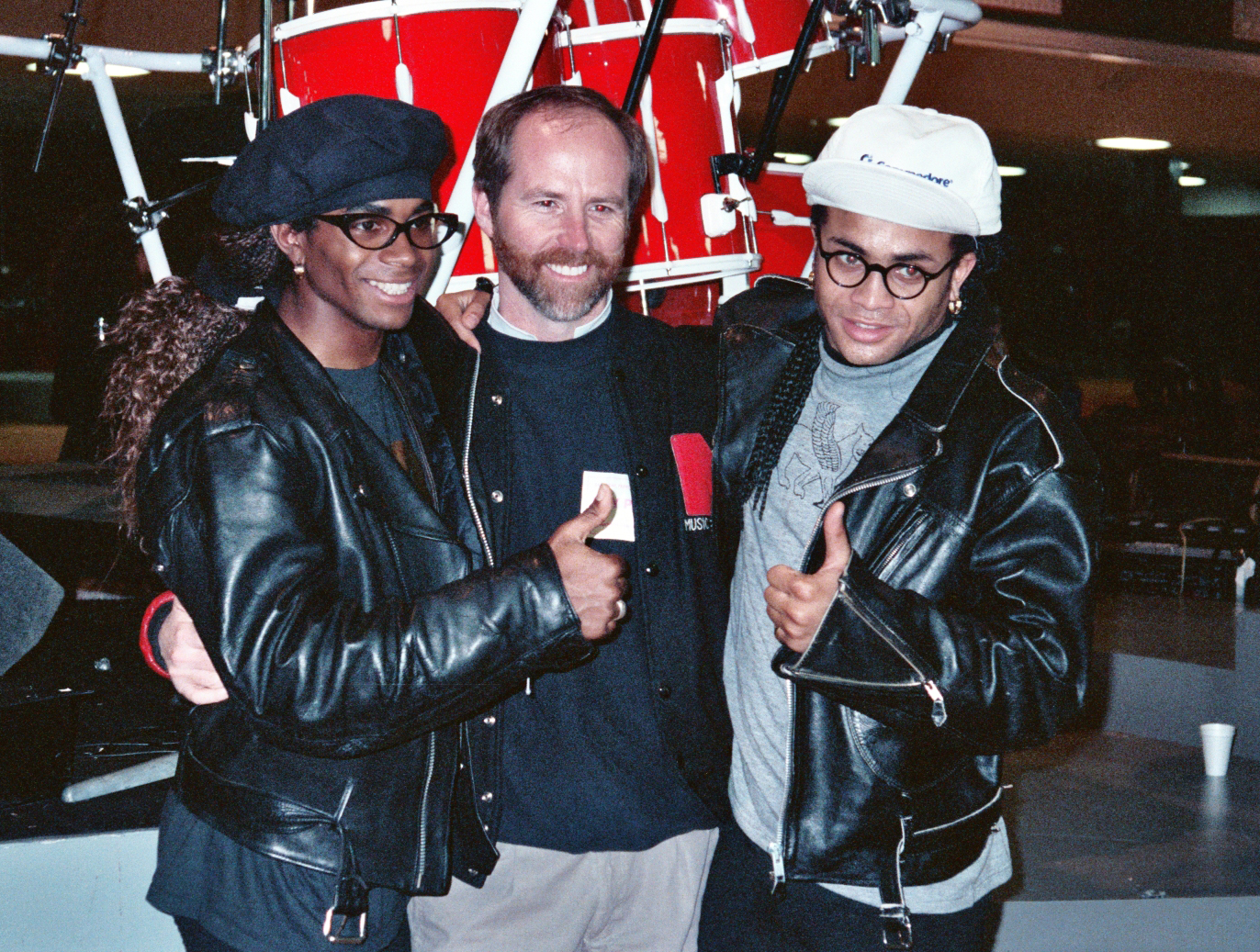 Fab Morvan (left) and Rob Pilatus (right) pose with National Academy of Recording Arts and Sciences (Grammy) president Mike Greene at the 1990 Grammy Awards - rehearsal - February, 1990 - Permission granted to copy, publish or post but please credit "photo by Alan Light" if you can